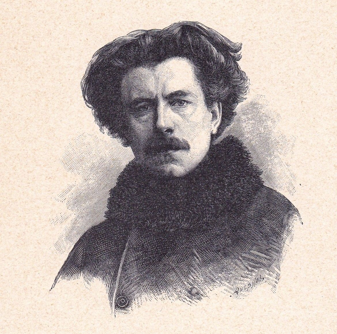 Portrait of Maurice Rollinat by Fernand Desmoulin (1853-1914), in Les Névroses, Paris, Fasquelle, 1917. Maurice Rollinat (1846-1903), Album Mariani, Paris, Librairie Henry Floury, 1897, vol. 3.